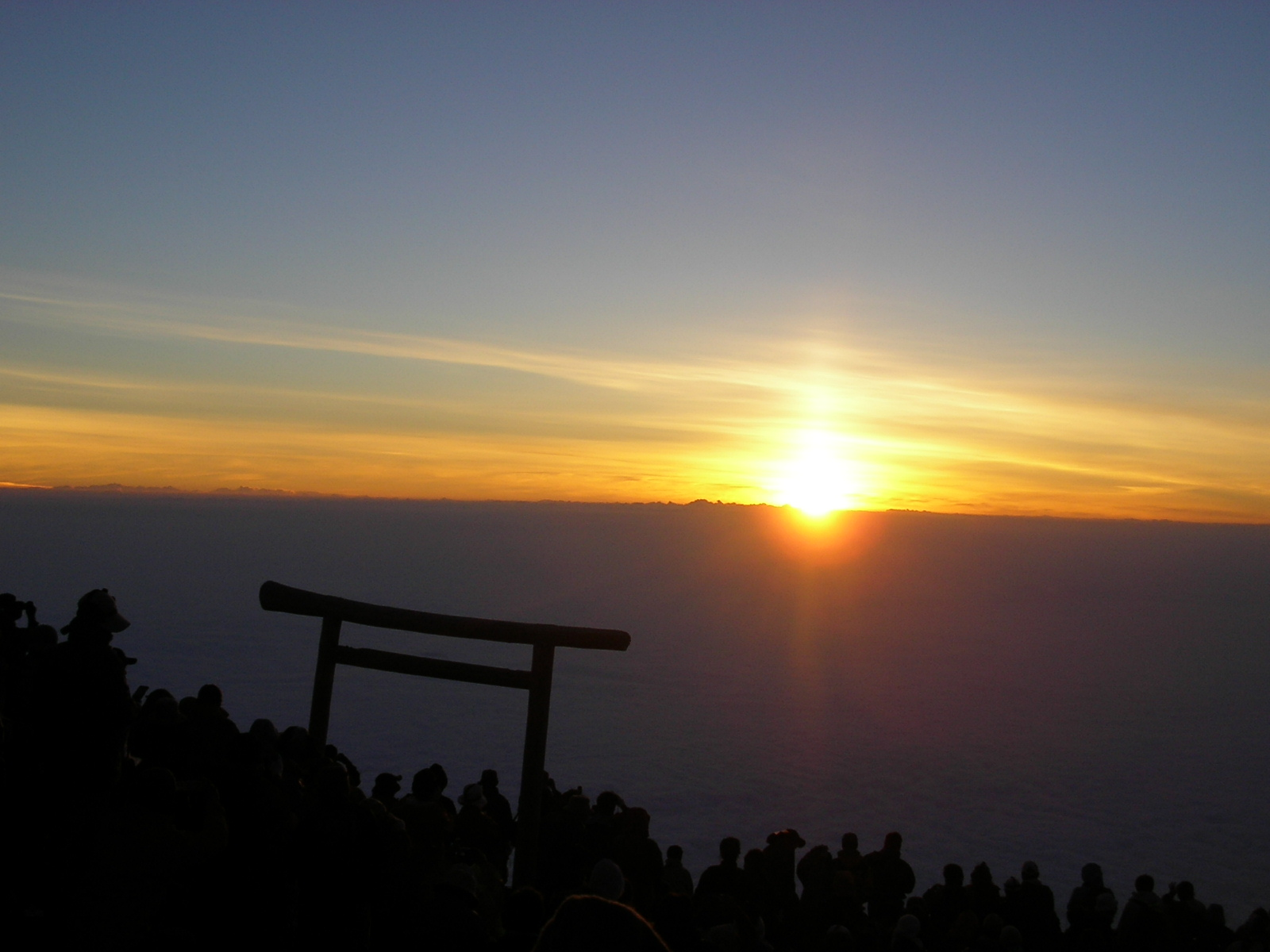 Sun Rise on the Mt. Fuji